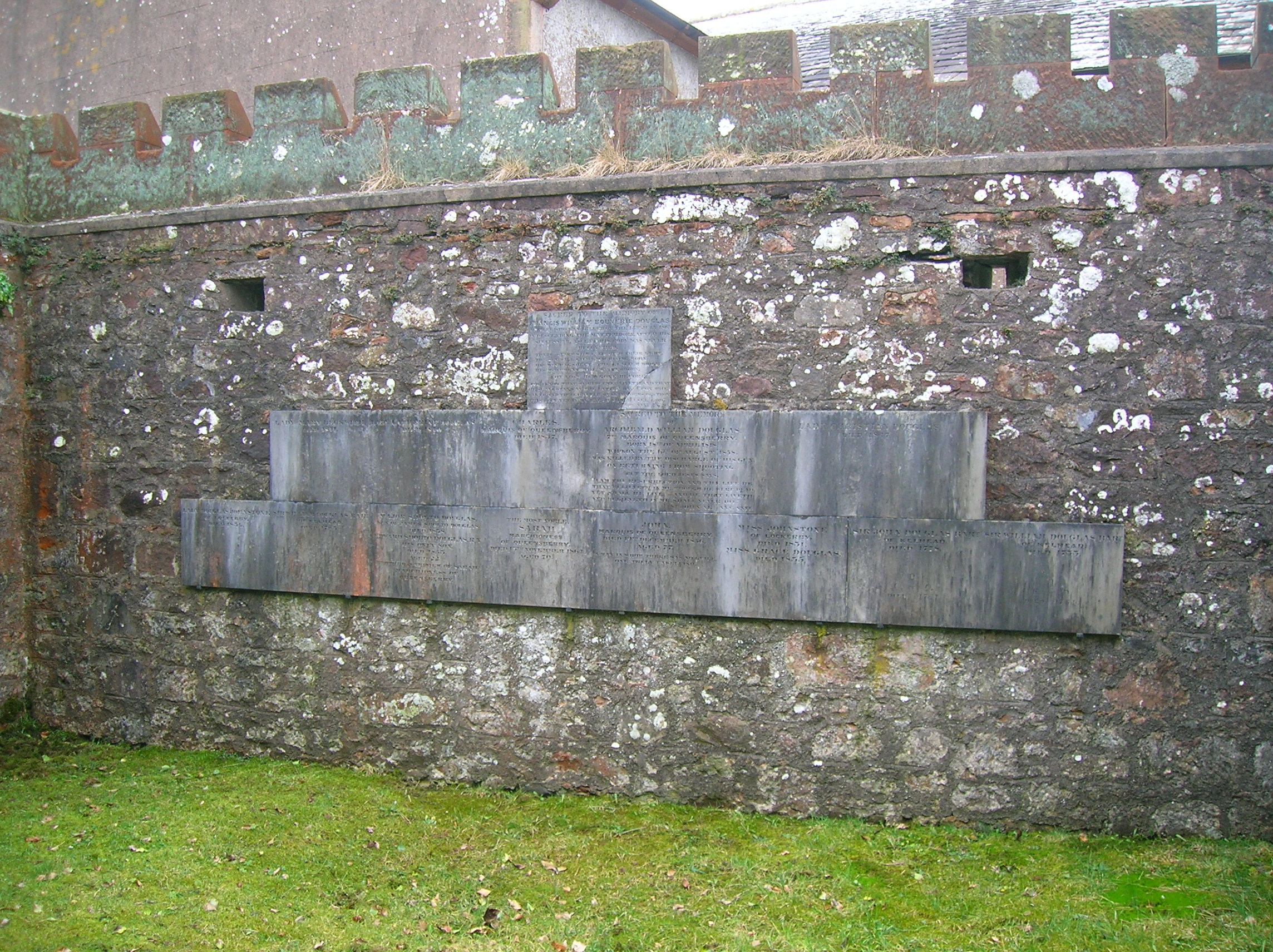 The memorials to members of the Douglas family of Kinmount, Marquesses of Queensberry, Cummertrees, Scotland.